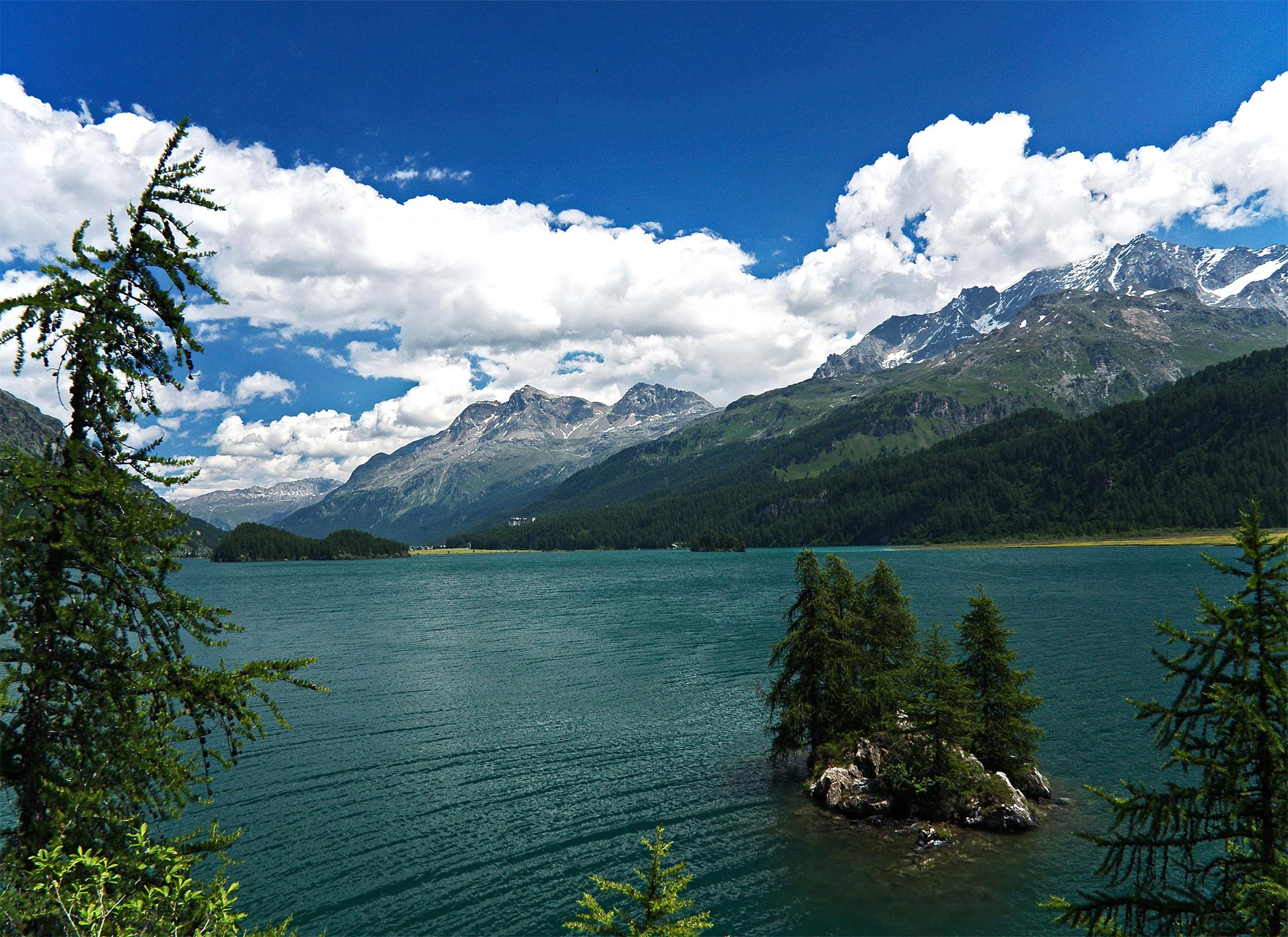 Lake Sils in Engadin. East view toward Chastè from near Plaun da Lej.